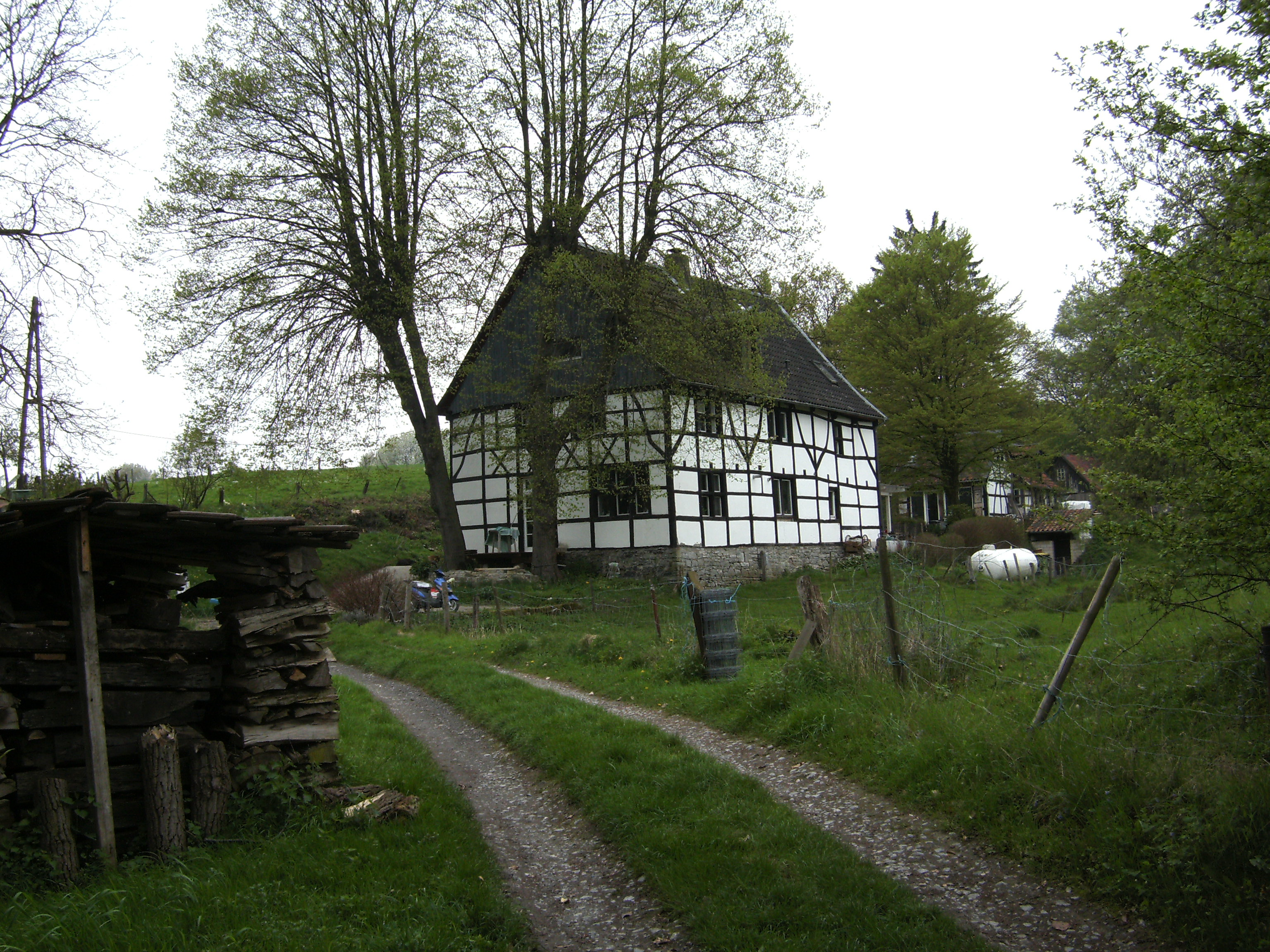 View of Wuppertal-Schöller-Siepen